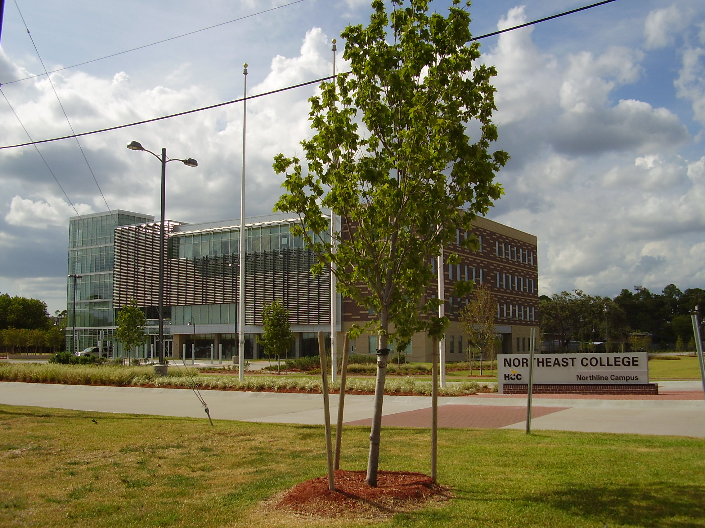 Houston Community College System Northeast College Northline Campus